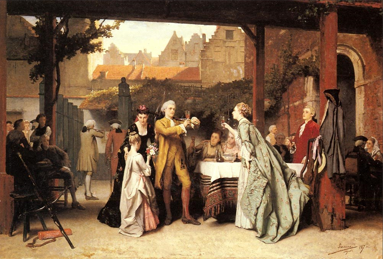 Toasting the Winner